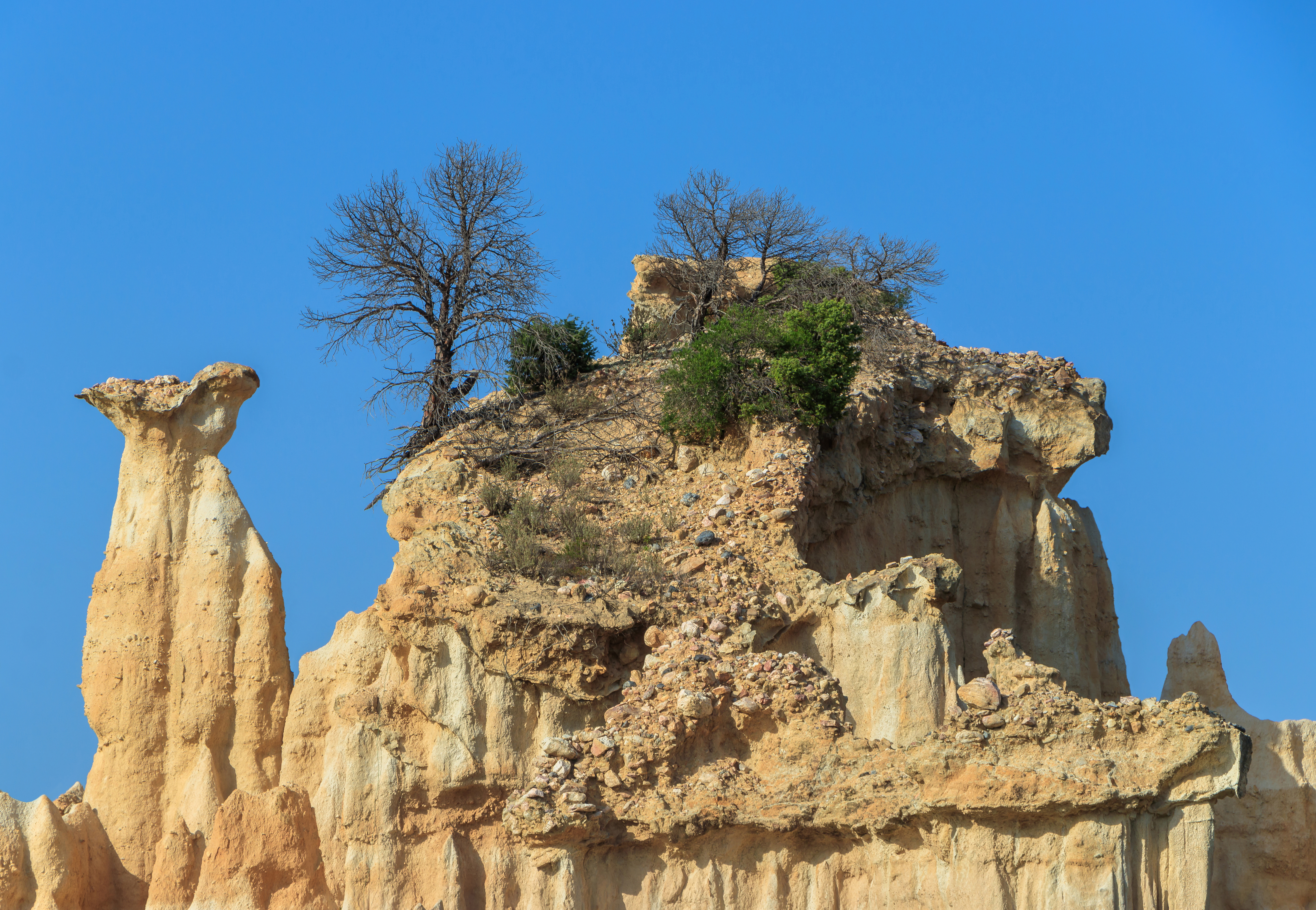 Le site des Orgues, Ille-sur-Têt, Pyrénées-Orientales, France